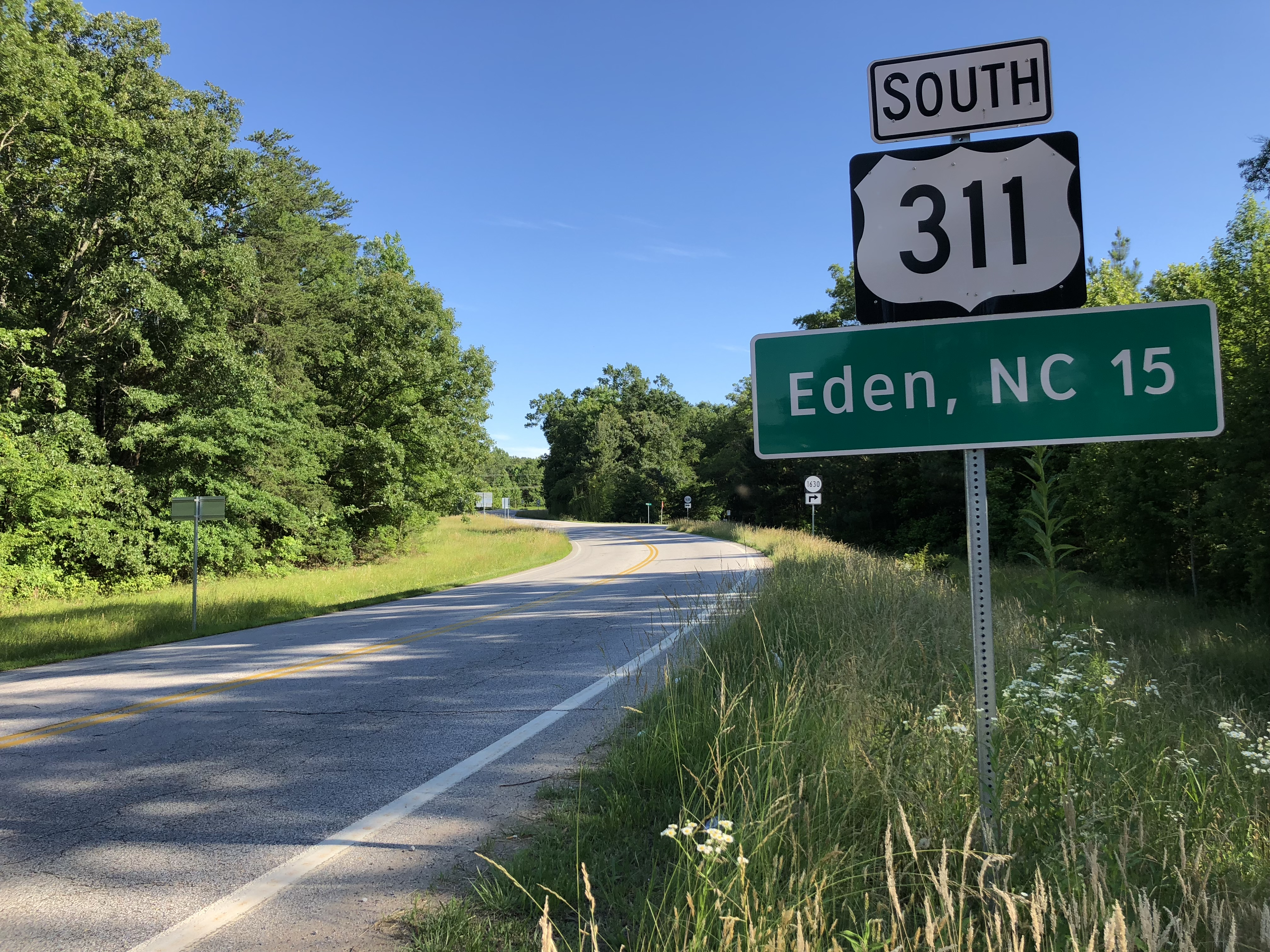 View south along U.S. Route 311 (Berry Hill Road) at U.S. Route 58 Business (Martinsville Highway) in Callahans Hills, Pittsylvania County, Virginia